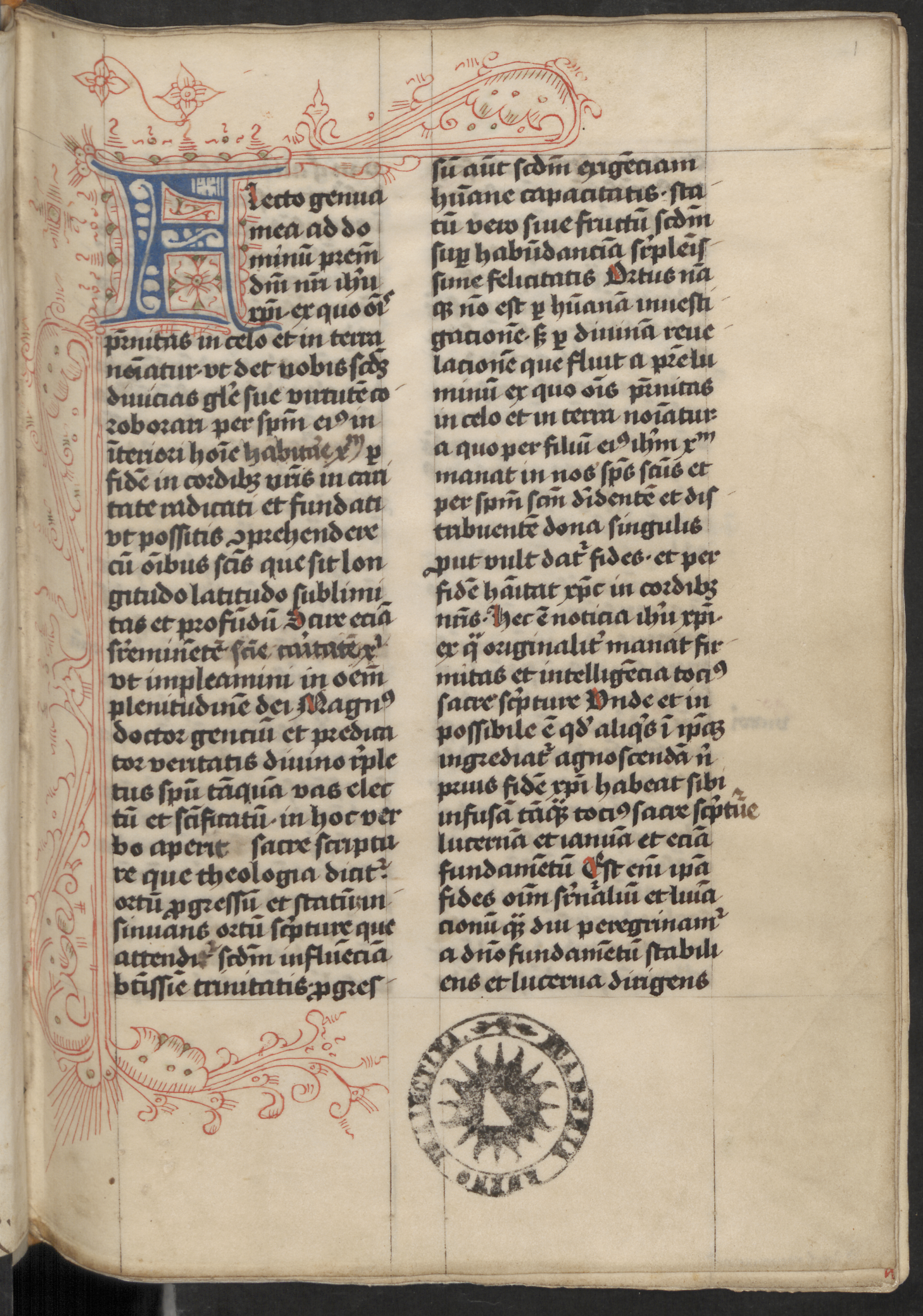 Ms.163, fol. 1r.